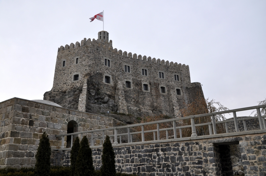 Rabati Castle in Akhaltsikhe